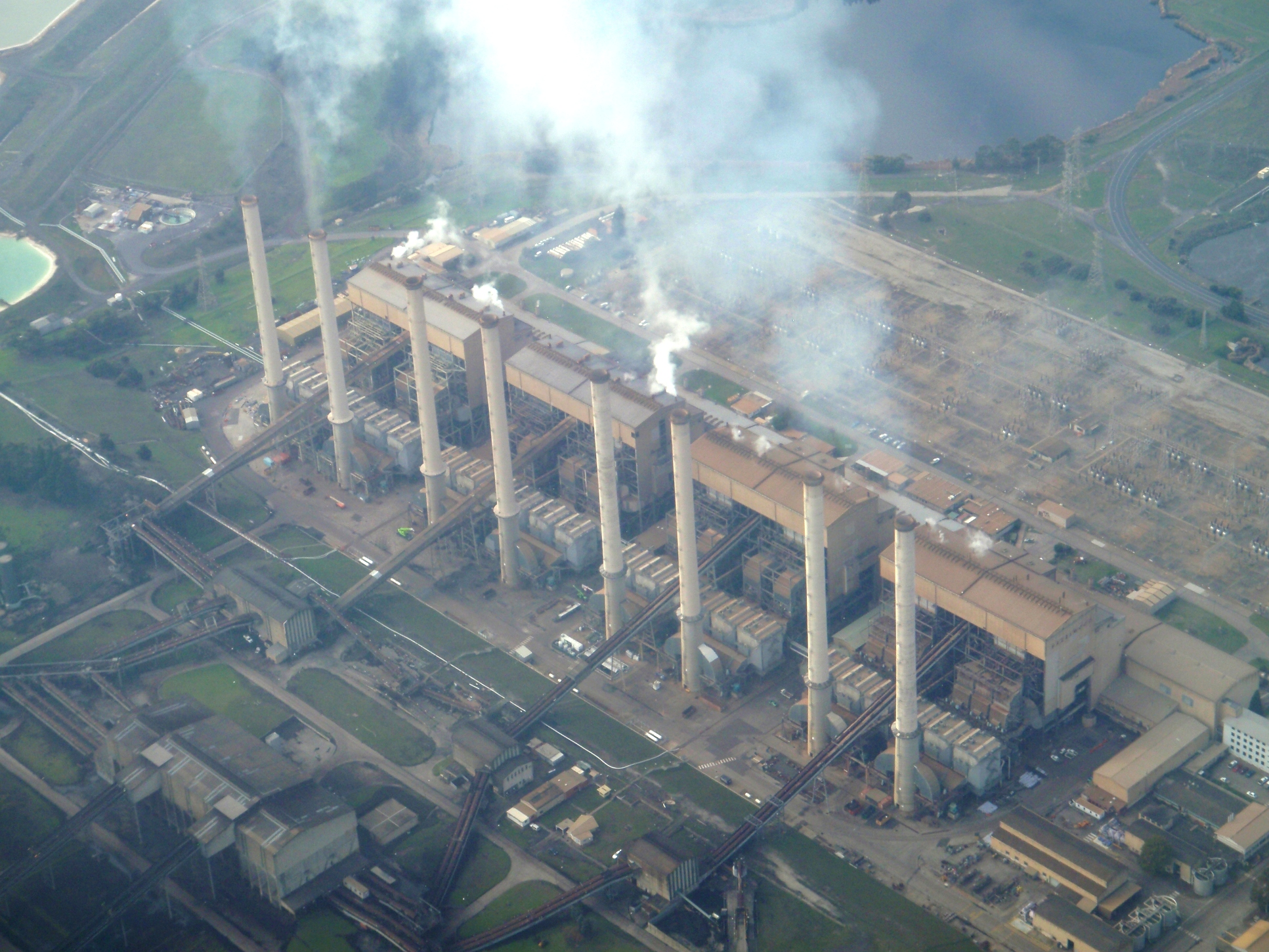 Hazelwood Power Station and Hazelwood Power Station substation (top right) as seen from a light aircraft flying overhead.